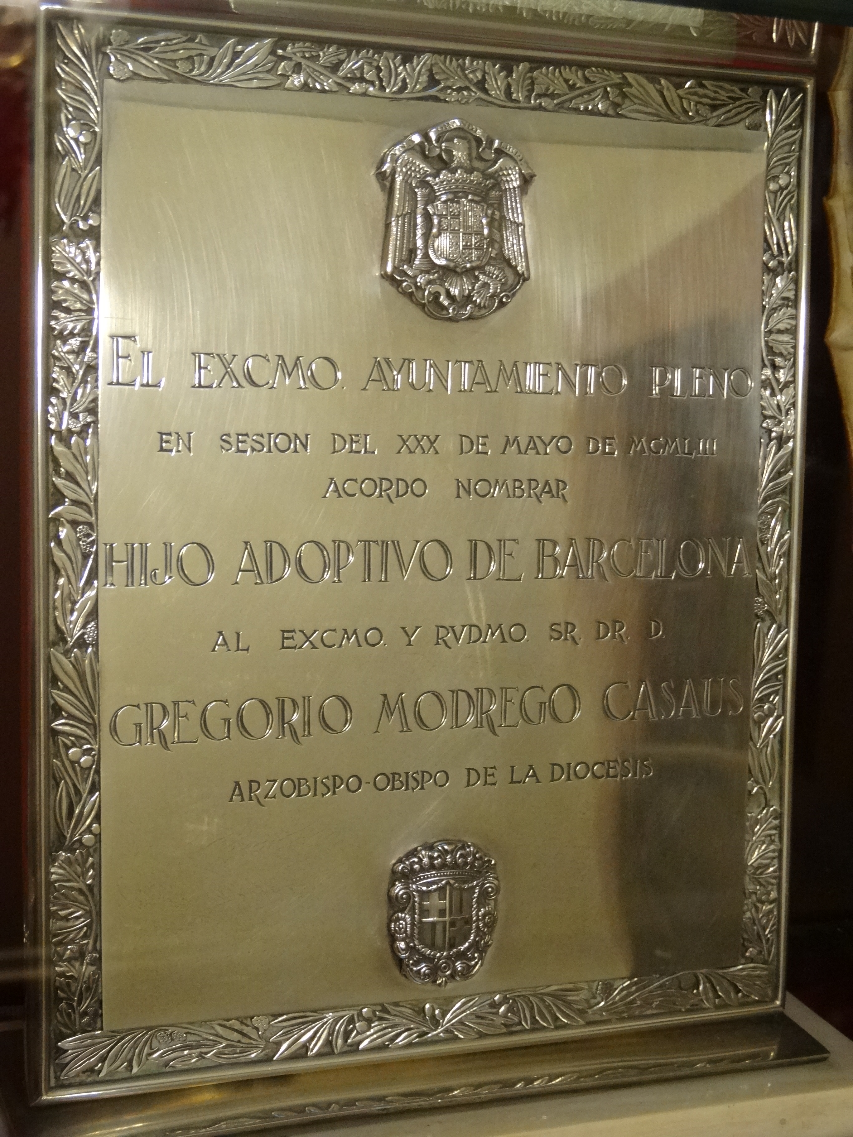 Interior of Basílica de la Mercè, Barcelona.